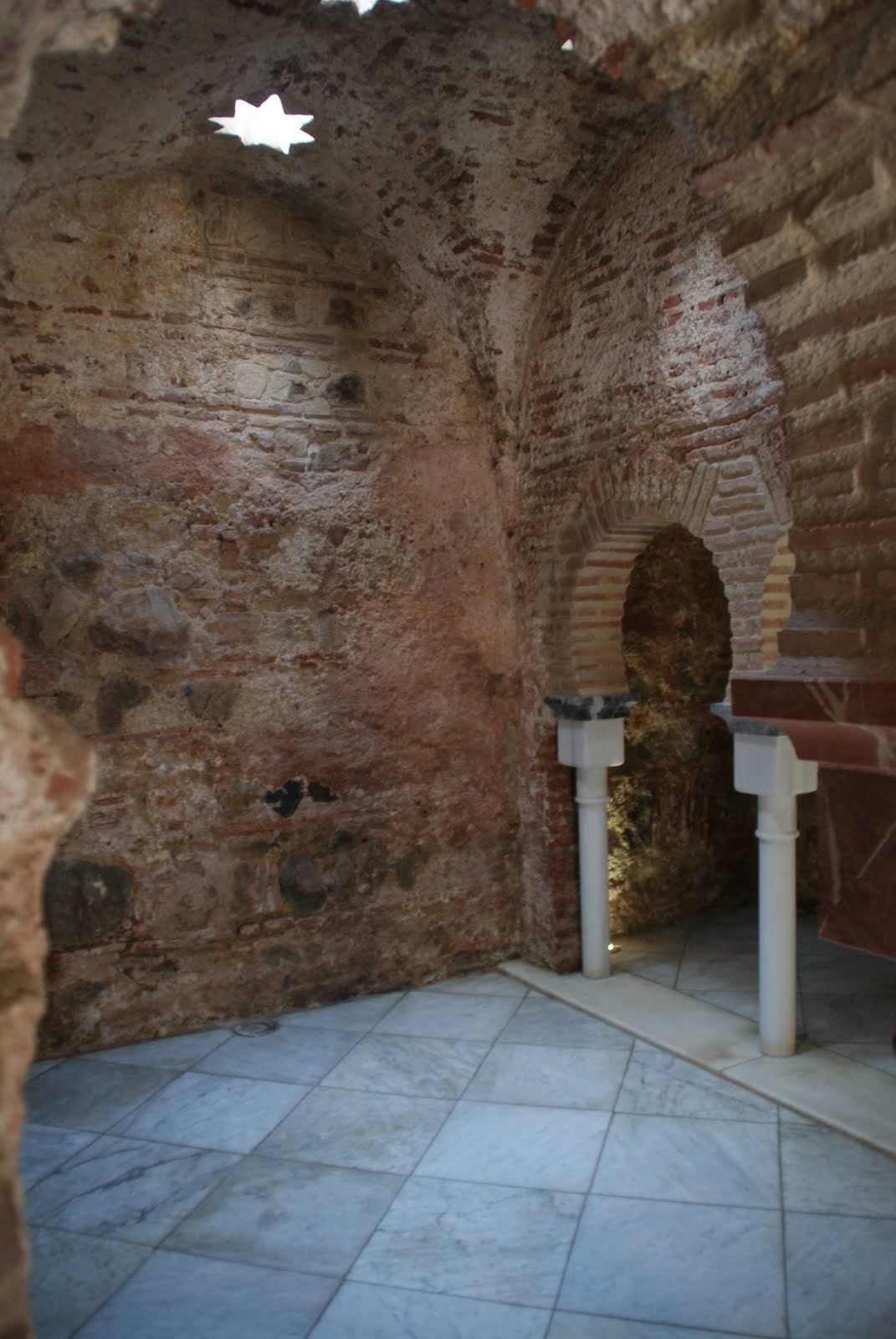 Interior of the Arab Baths in Ceuta